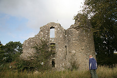 Exterior of Esslemont Castle.